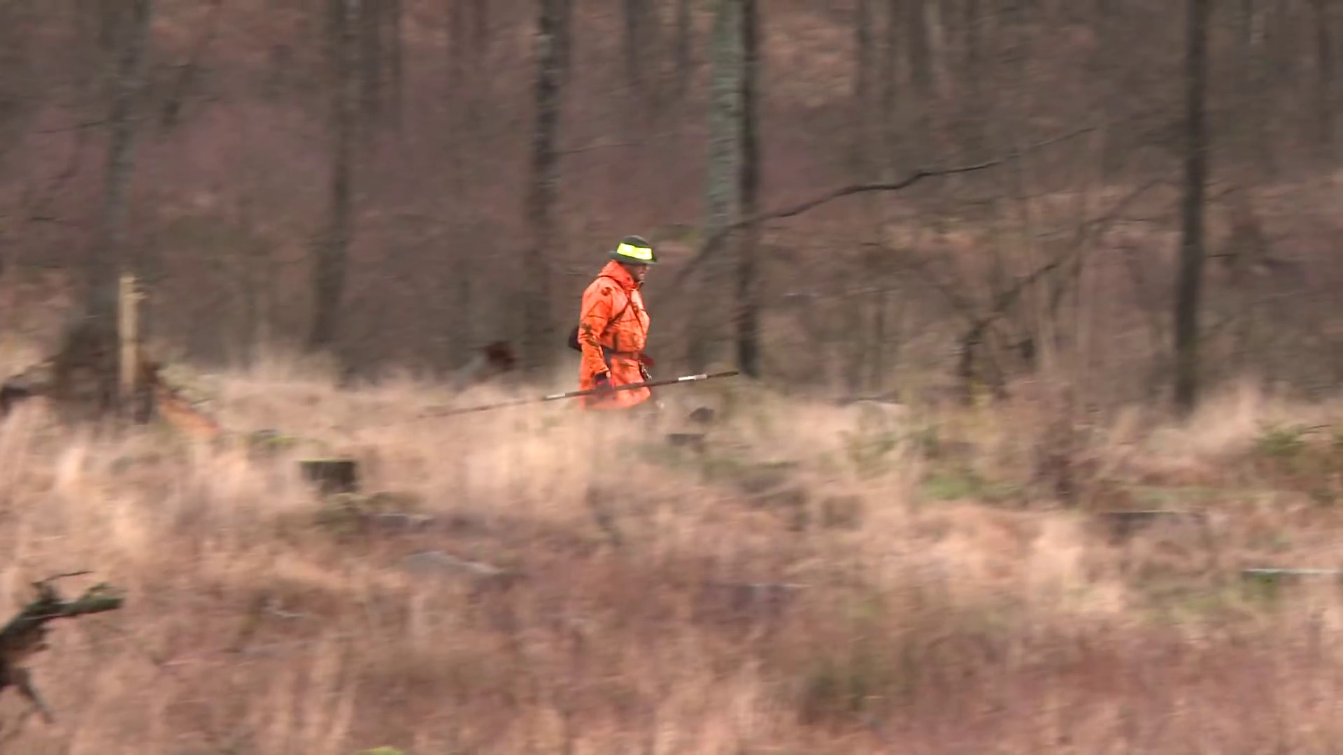 Hunter with boar spear (German: "Saufeder") during a driven hunt in Skane, Sweden